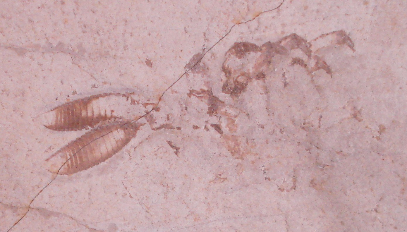 fossil of Cancrinos latipes